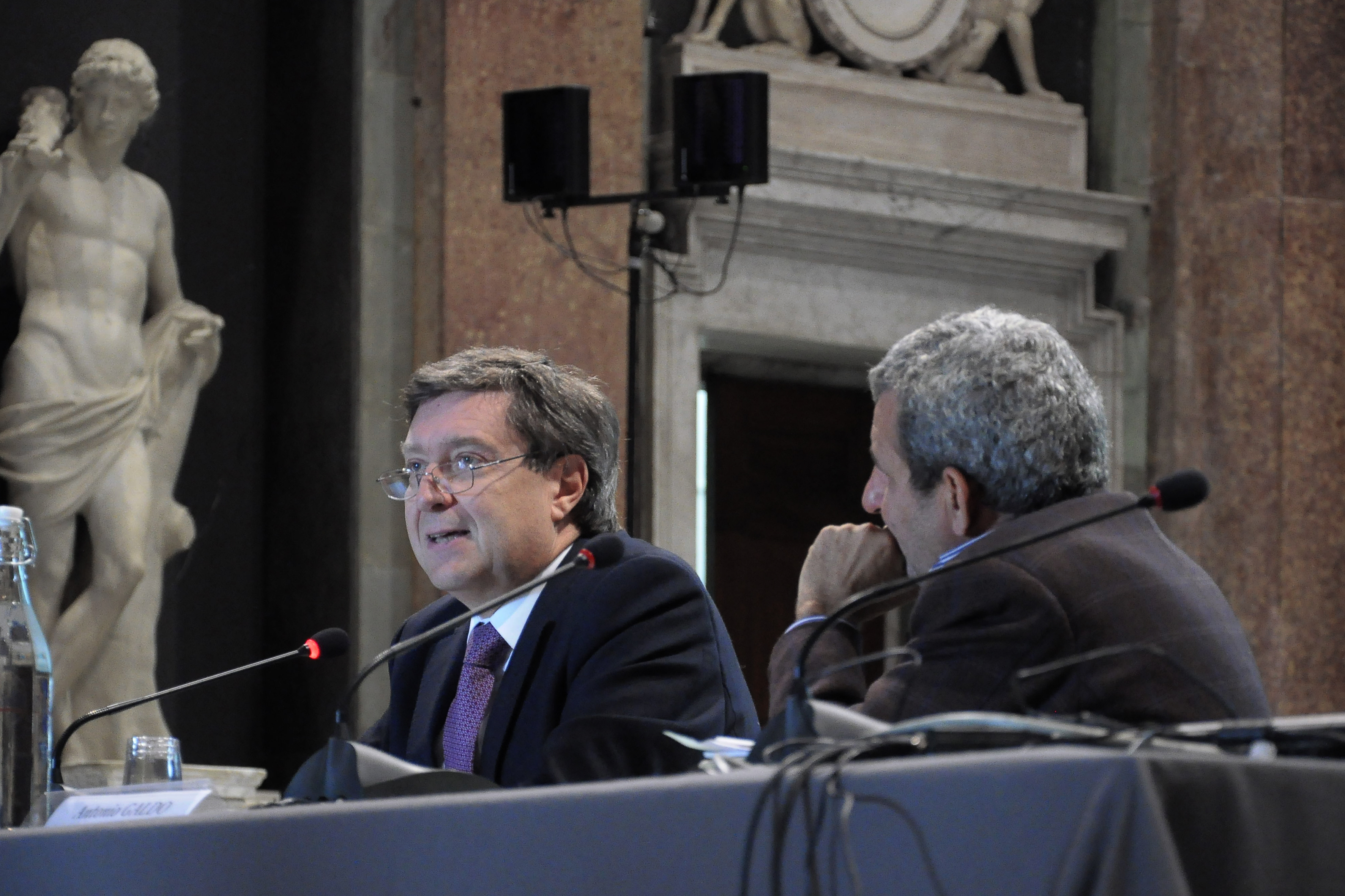 Italian economist Enrico Giovannini and journalist Antonio Galdo (turned back) at a conference named Does Progress Always Lead to Happiness?.[1] This event was part of the 2011 Festival della Scienza, a science festival held annually in Genoa, Italy.